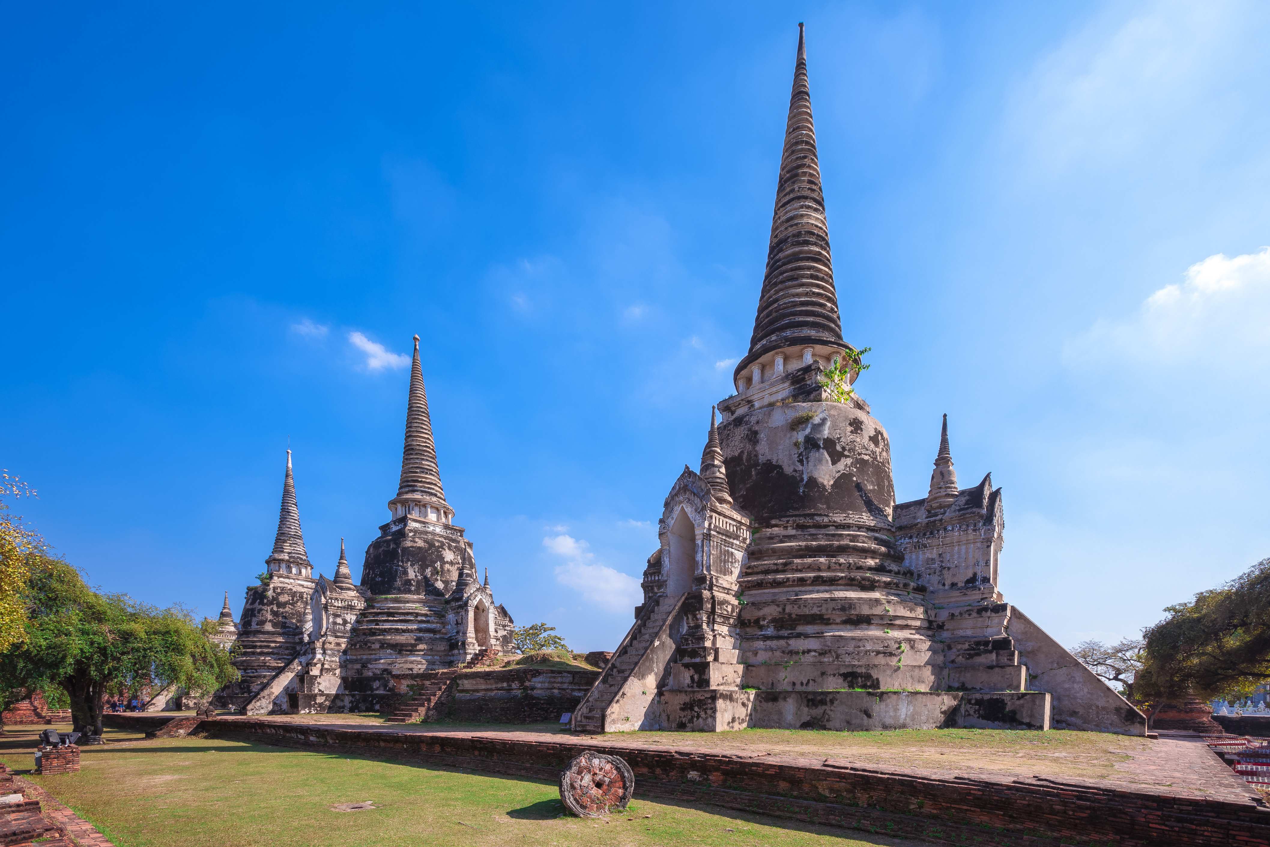 Wat Phra Si Sanphet - Buddhist temple within the old palace of the Kingdom of Ayutthaya: Phra Nakhon Si Ayutthaya District, Phra Nakhon Si Ayutthaya Province, Thailand.